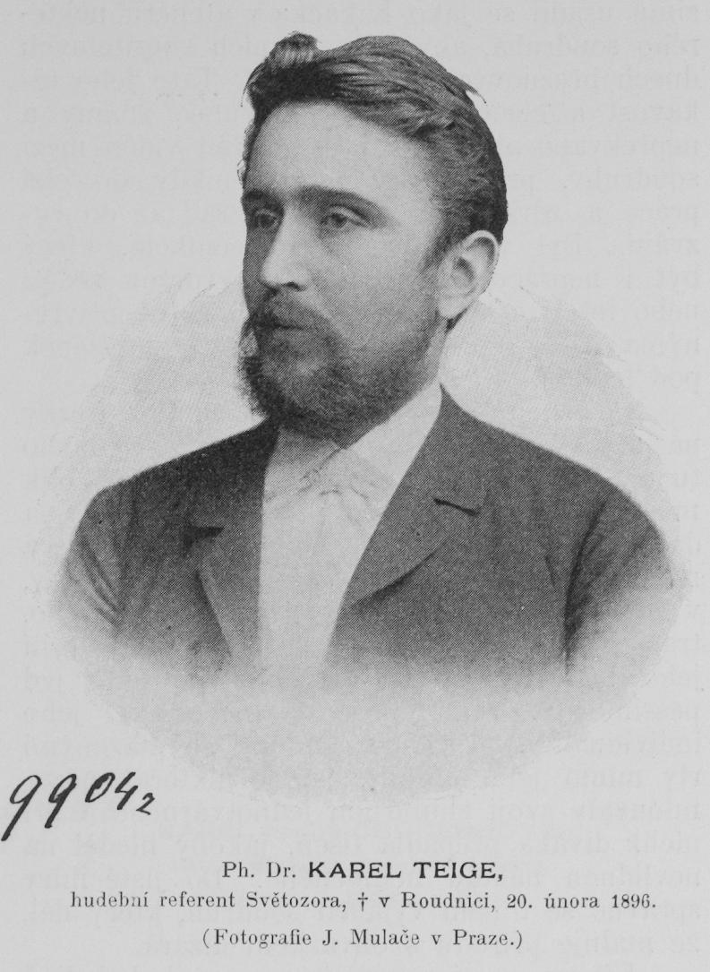 Potrait of Karel Teige (1859 - 1896), Czech musicologist.